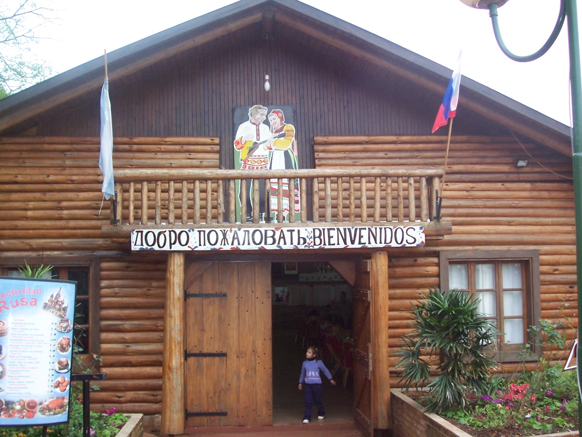 The Russian House, in the Park of the Nations, within the framework of XXVI the National Immigrants' Festival, in Oberá, Misiones Province, Argentina.